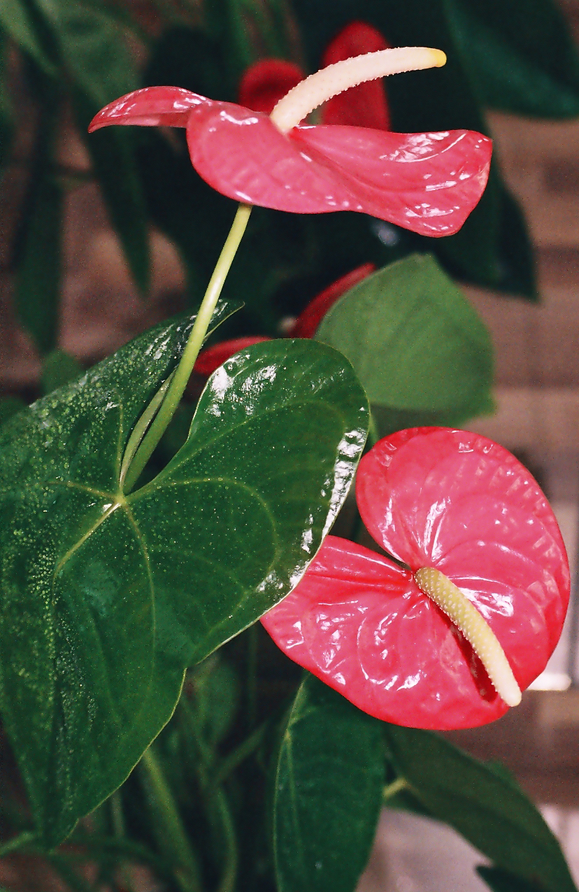 Anthurium andraeanum 'Tennessee'.